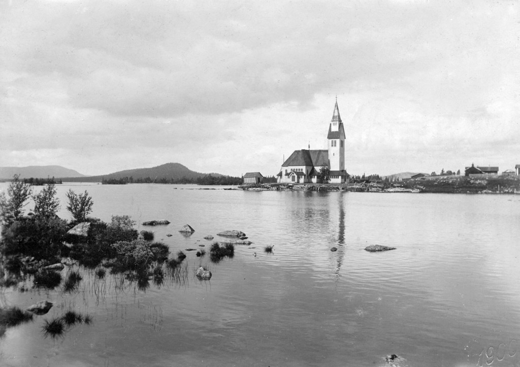 Arjeplog Church - Sofia Magdalena. View from south. The church is from the 1760s.